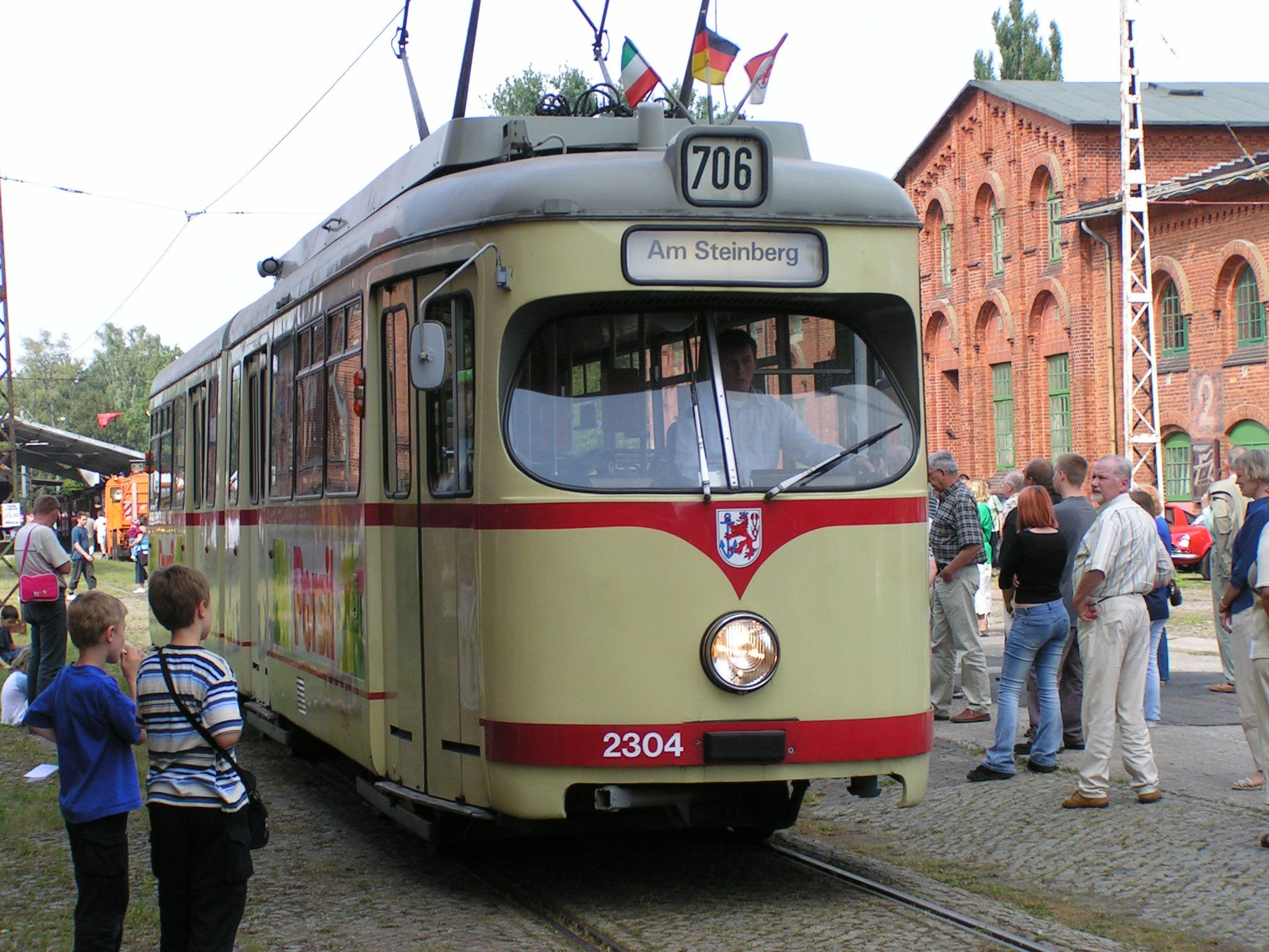 Historical tram of Rheinbahn Düsseldorf, built by Düwag, line 706; photo taken at Hanover Tram Museum, Sehnde-Wehmingen